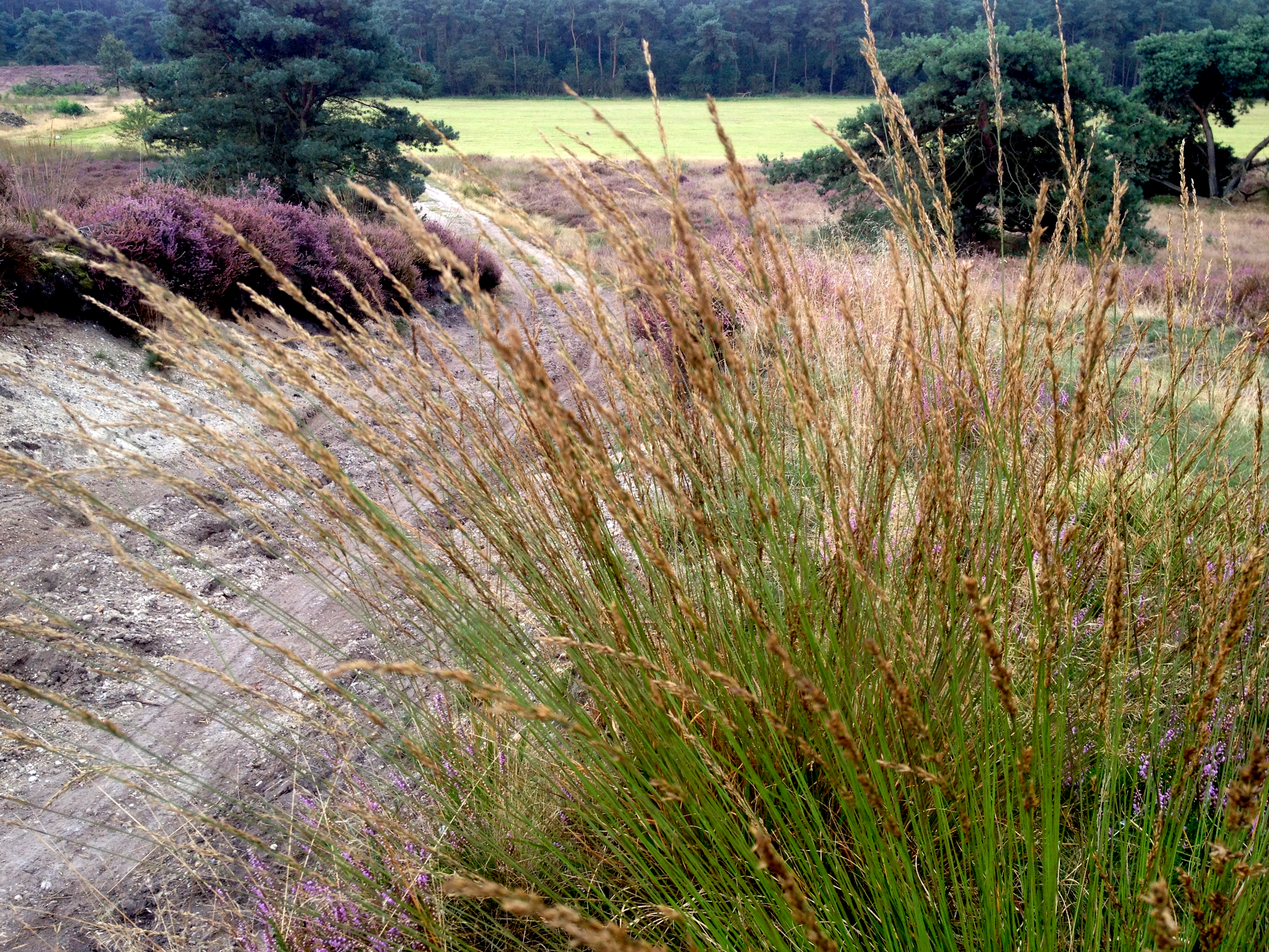 Special on the Itterbecker Heide are large pieces of Heath combined with Meadows